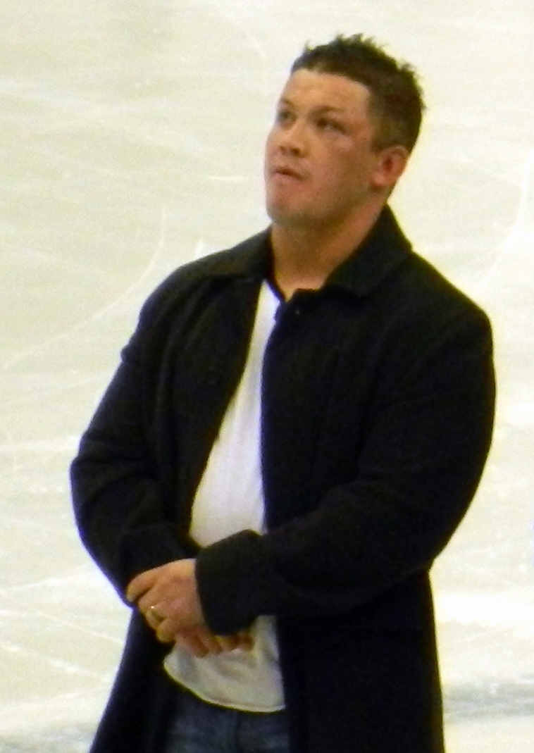 Jon Mirasty in 2014 during the ceremonial puck drop of the Frozen Dome Classic.